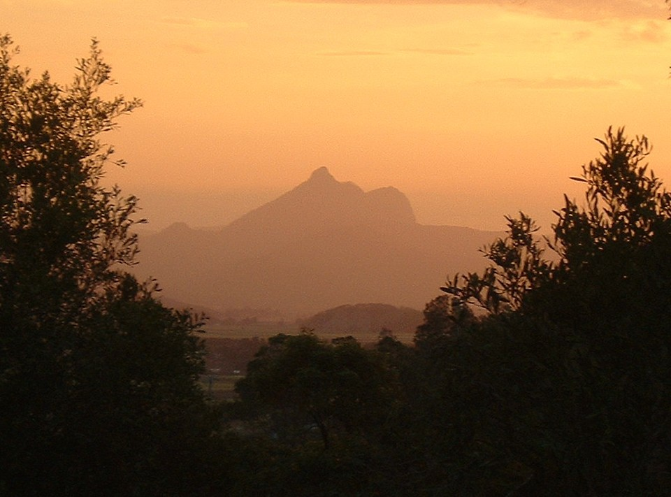 Mt warning at sunset